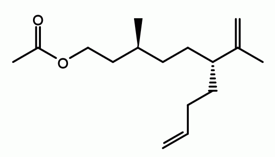 Rescalure, sex pheromone of California red scale (Aonidiella aurantii). IUPAC: (3S,6R)-(3S,6S)-6-isopropenyl-3-methyldec-9-en-1-yl acetate